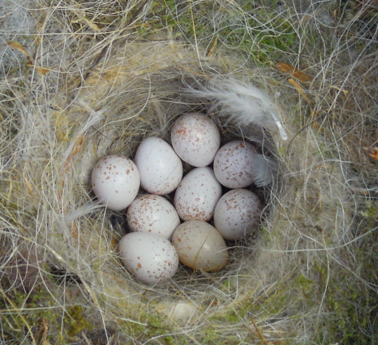 Blue Tit eggs, Larvik, Norway